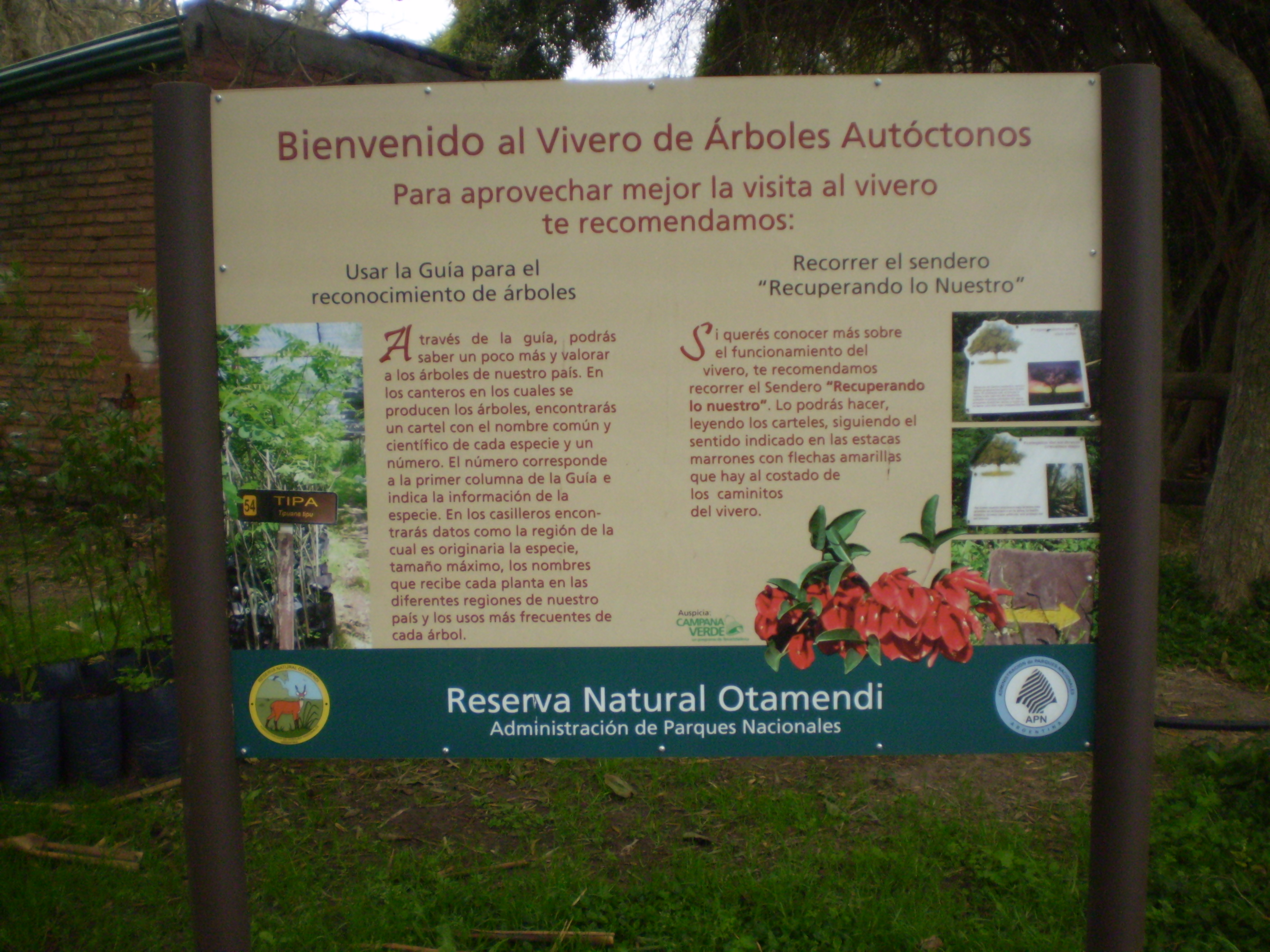 Otamendi wildlife natural reserve, Argentina.